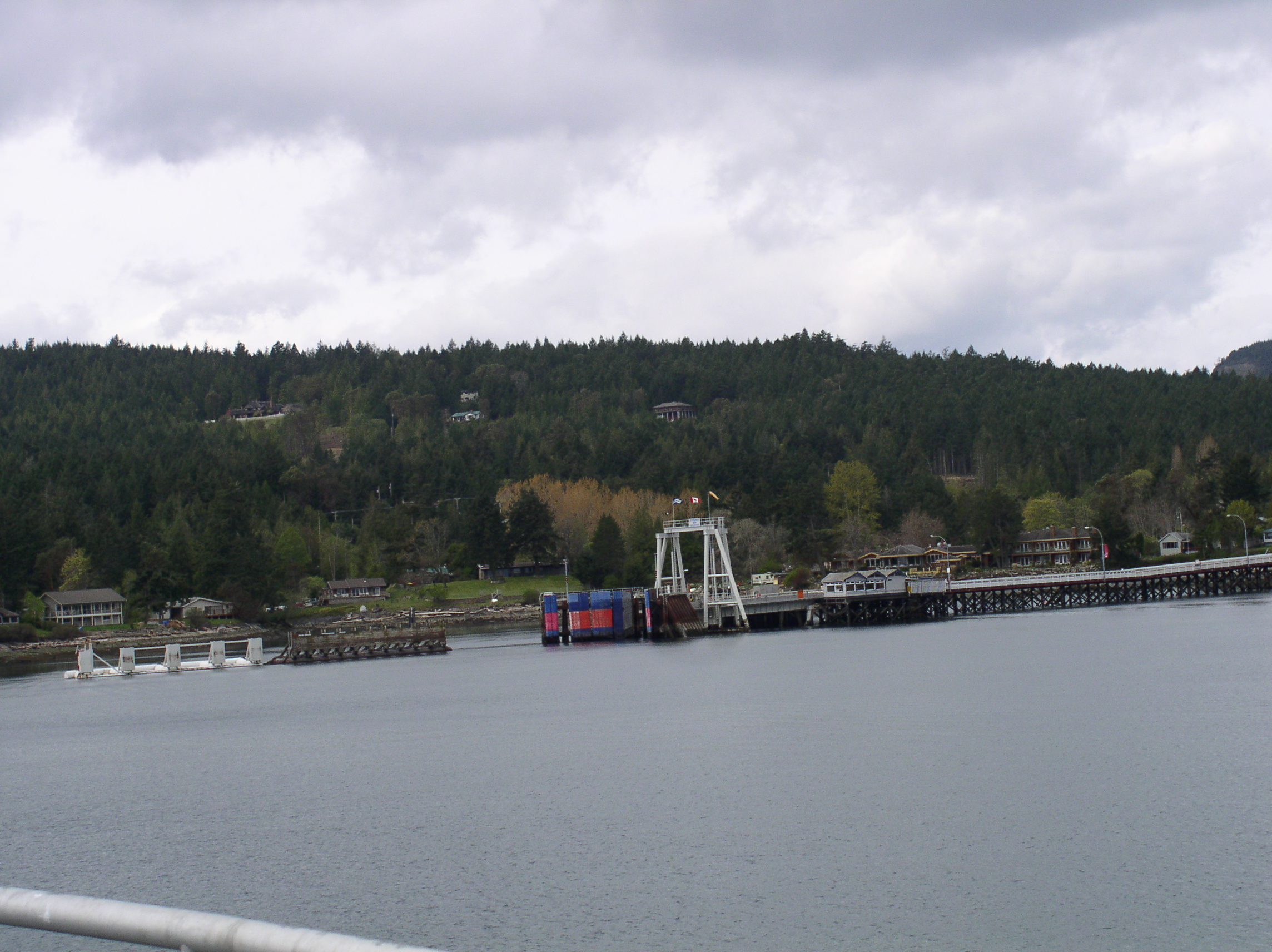 Sturdies Bay on Galiano Island